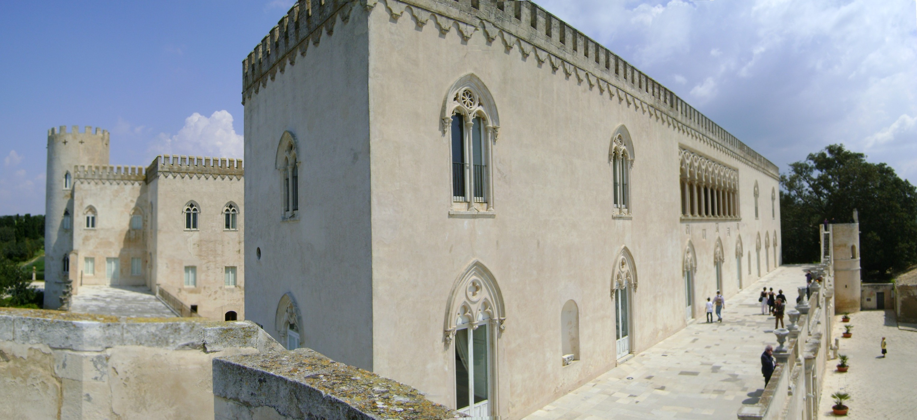 The castle Donnafugata, Ragusa, Sicily